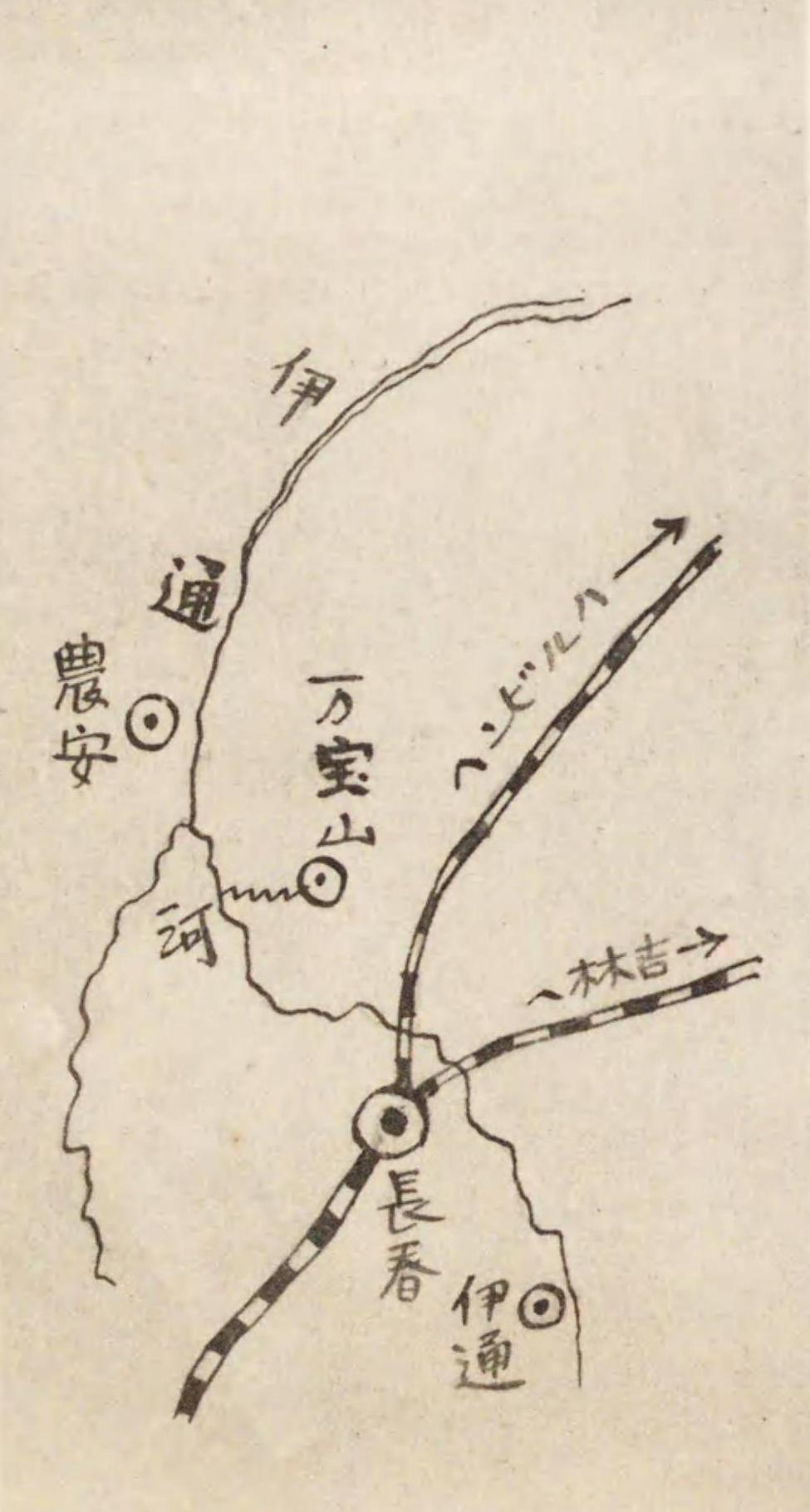 Map of Wangpaoshan and its environments.